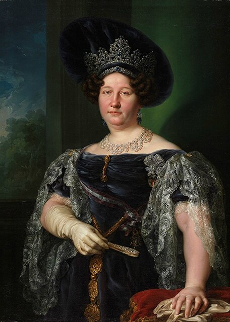 Portrait of Queen Maria Isabella of the Two Sicilies, née Infanta of Spain